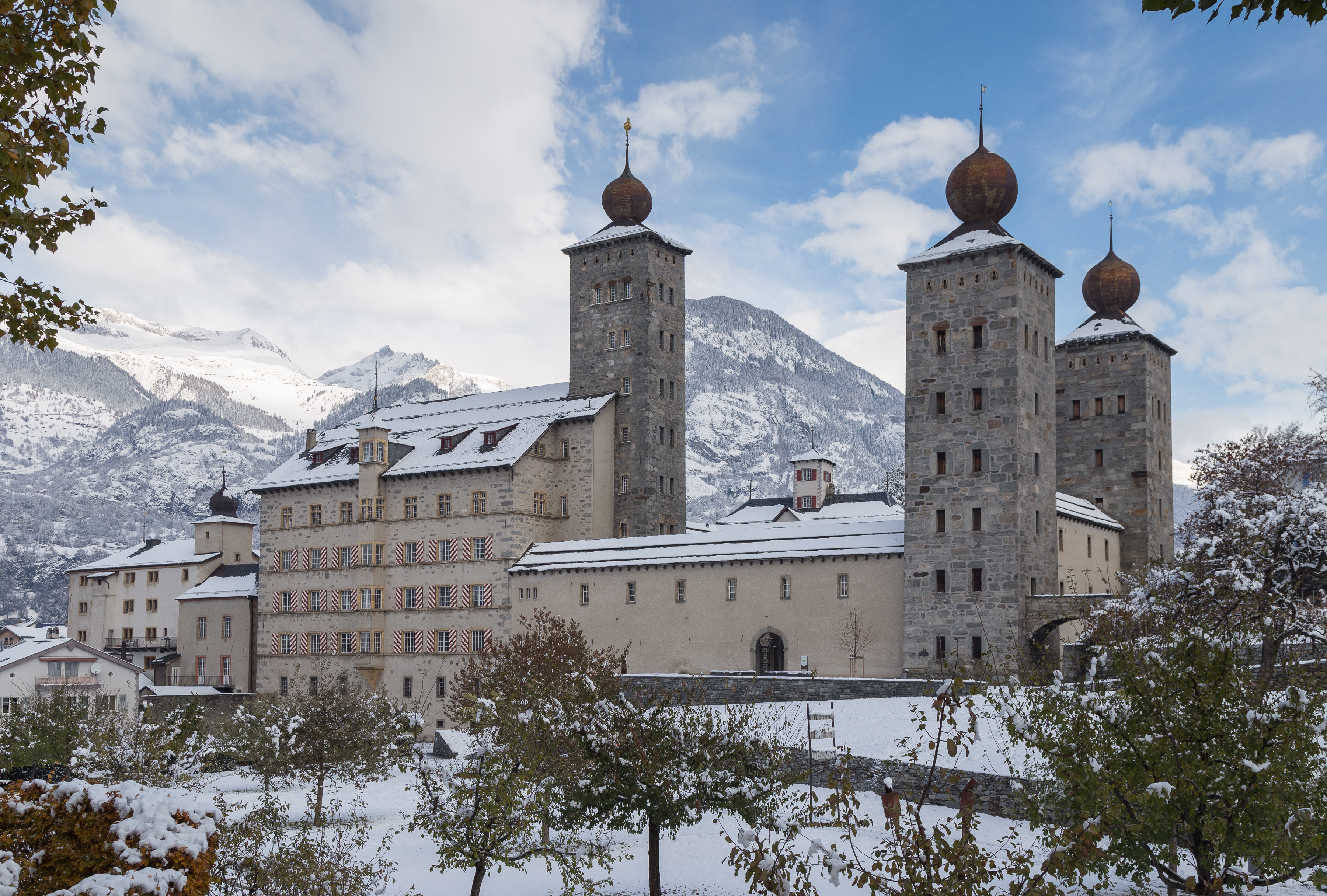 Stockalper Palace in Brig (Nov. 2013)